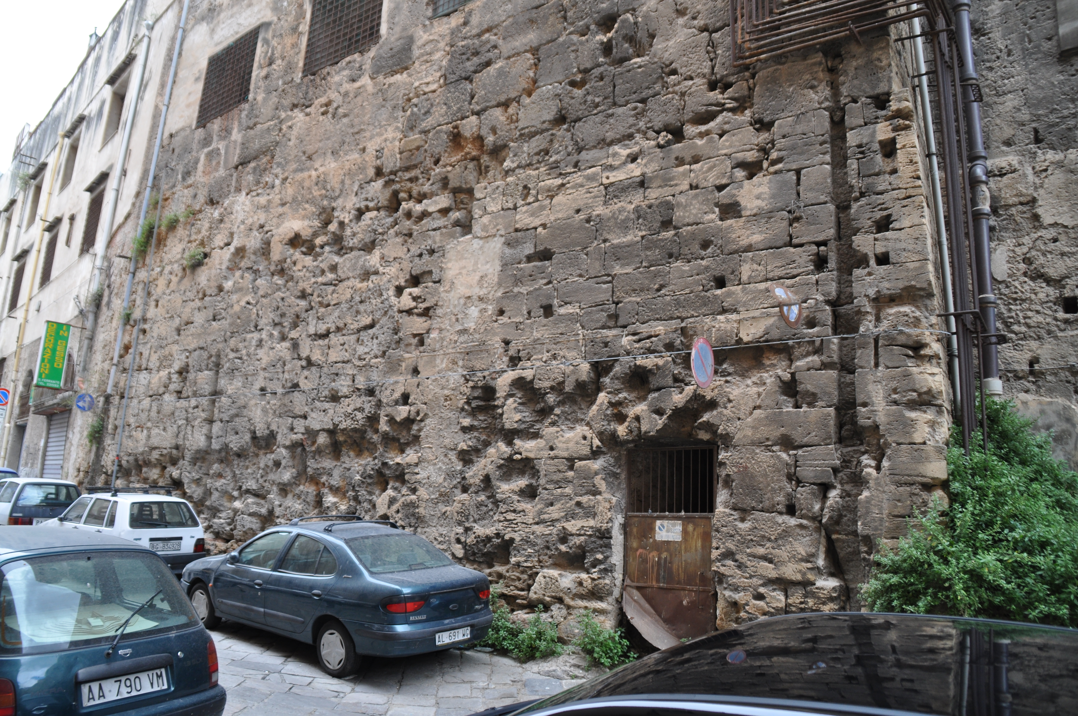 A brief stretch of Palermo's punic defence wall, now enclosed in the S. Caterina Monastery, and visible from Via degli Schioppettieri.